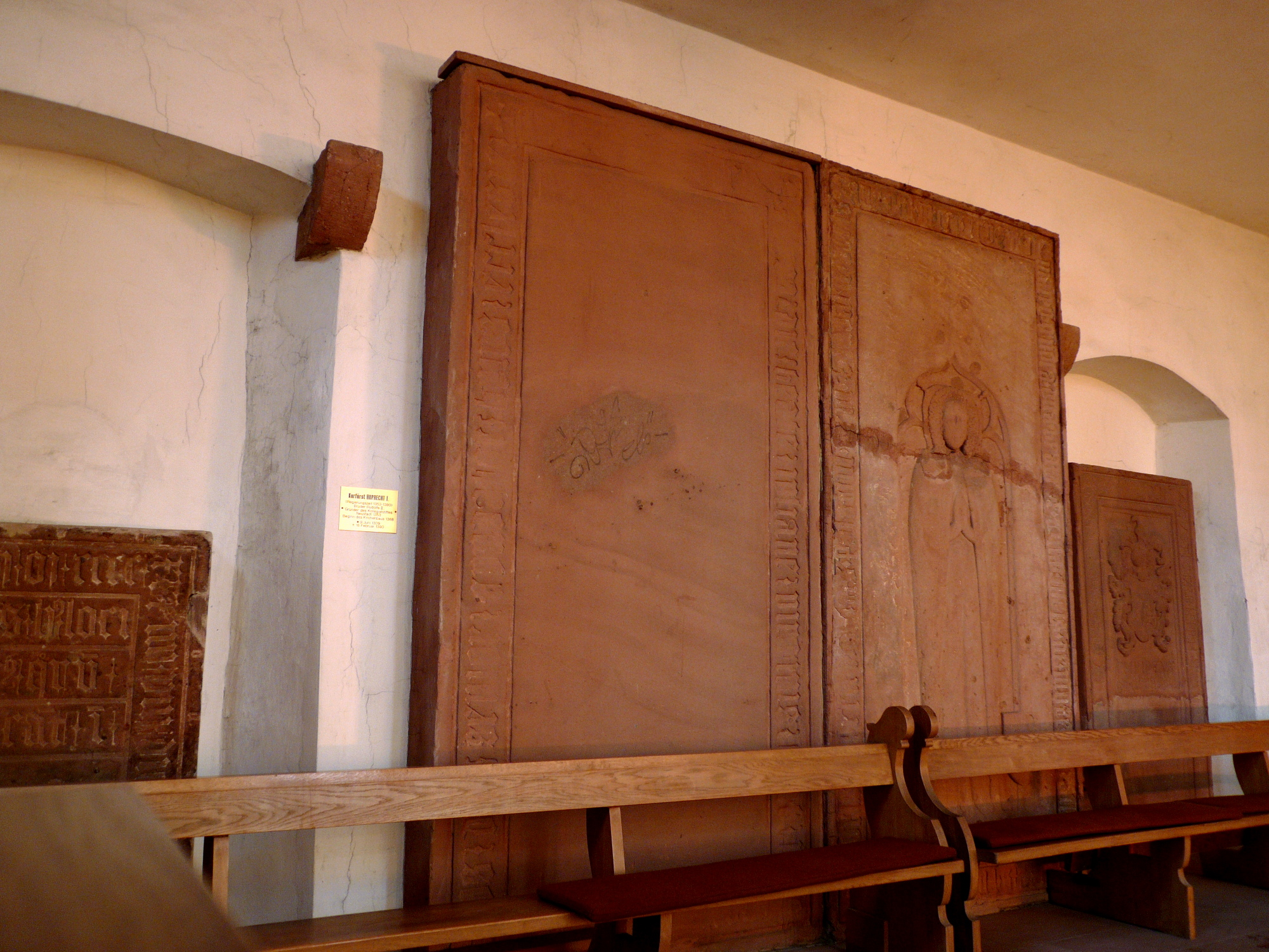 Tomb of Ruprecht I (died 1390) in the Stiftskirche at Neustadt/Weinstrasse